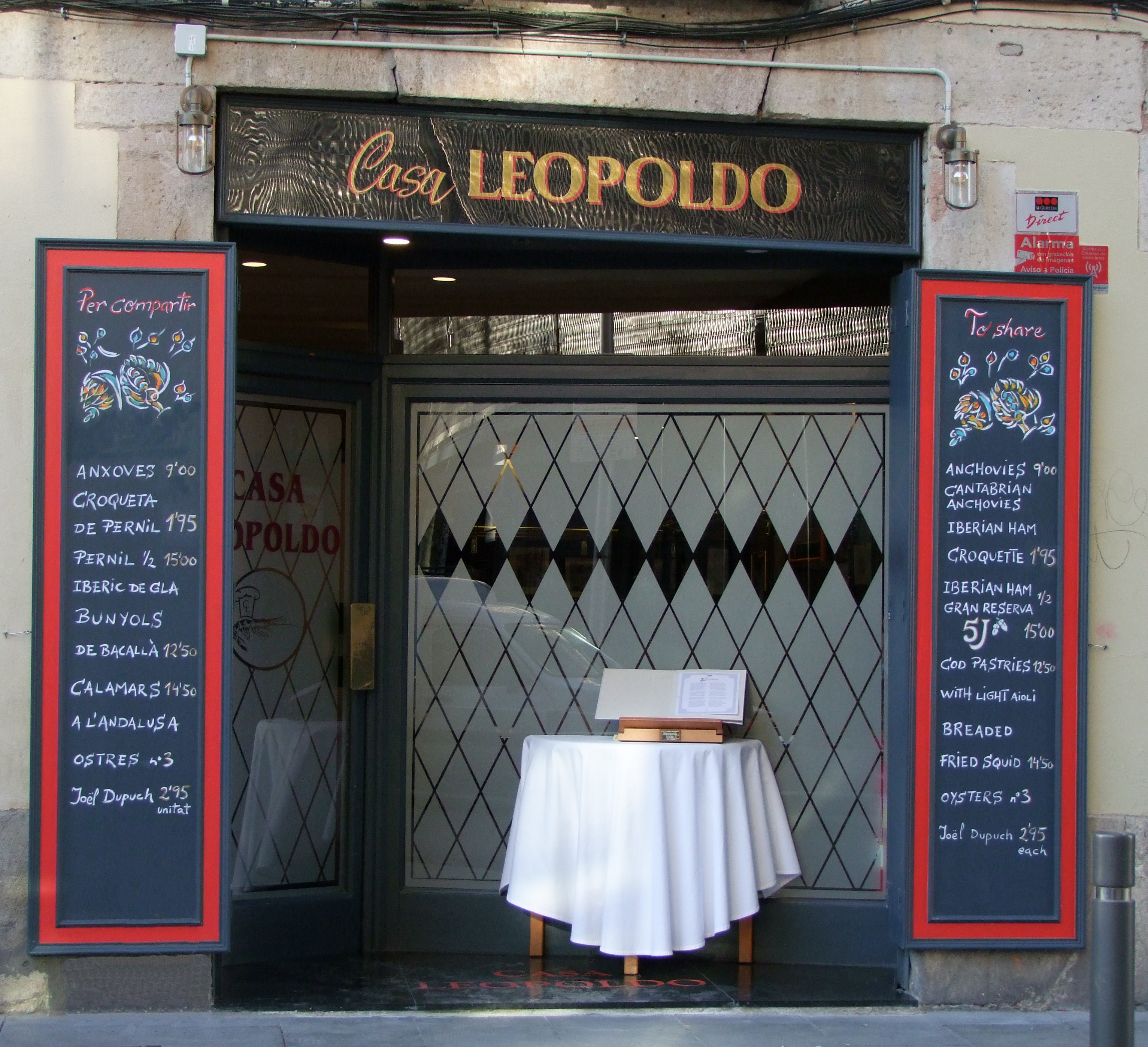 restaurant "casa leopoldo" in the quarter of El Raval in Barcelona.